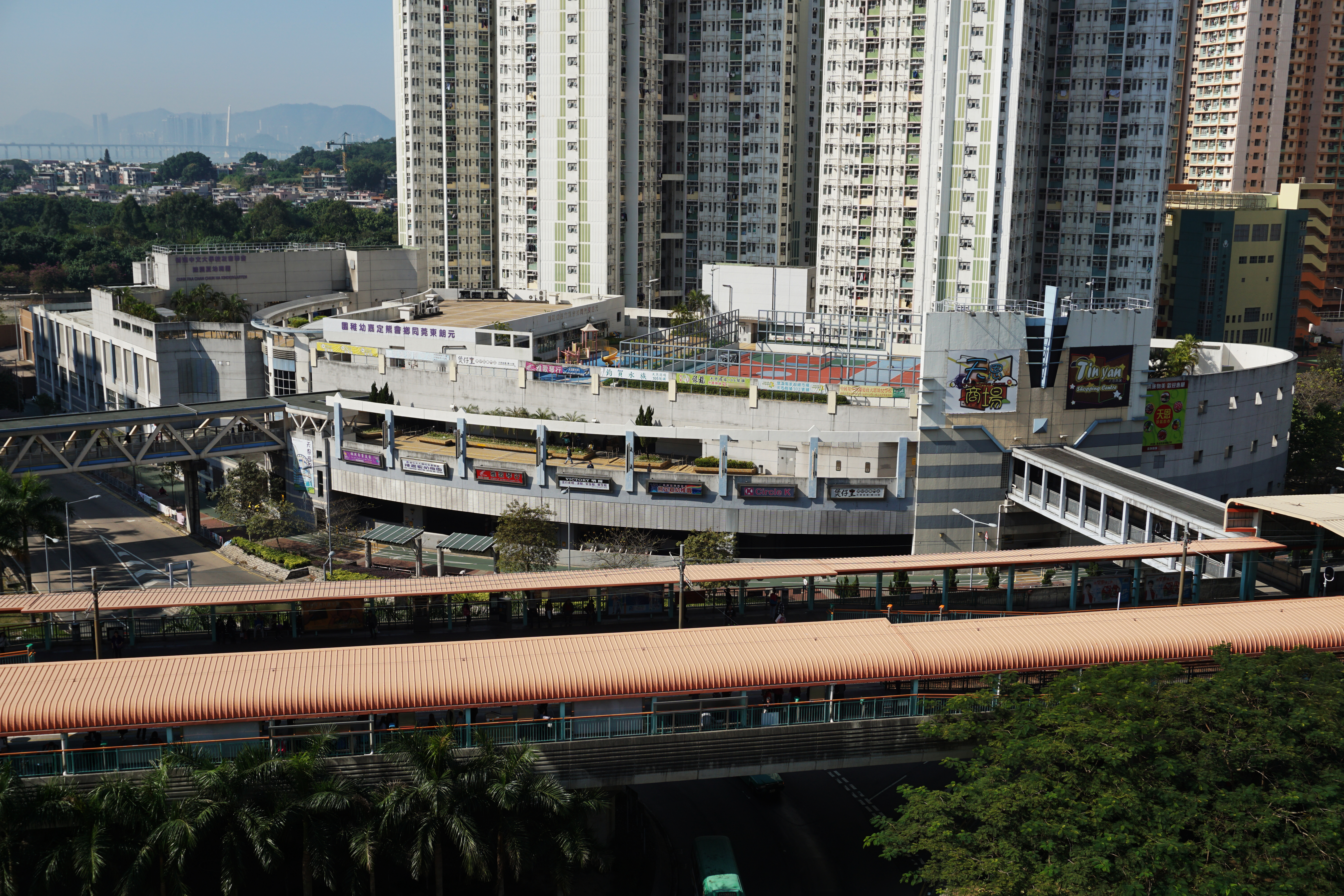 Tin Yan Shopping Centre in Tin Shui Wai, Hong Kong.